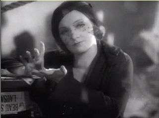 Cropped screenshot of Marlene Dietrich from the trailer for the film Morocco